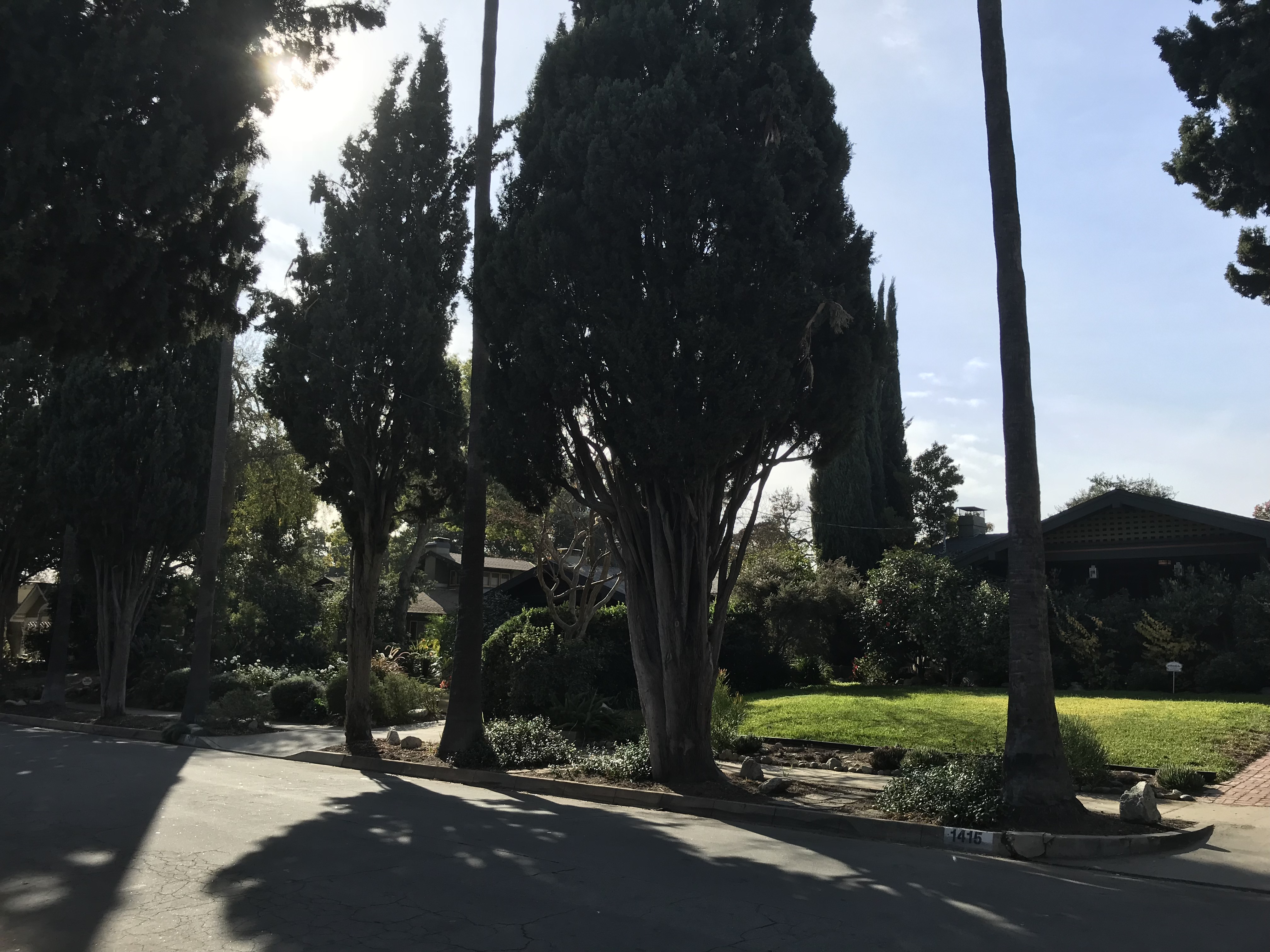 Largely obscured by trees, immaculately-maintained Craftsman homes on Palm Terrace in the Normandie Heights neighborhood of Pasadena, California.